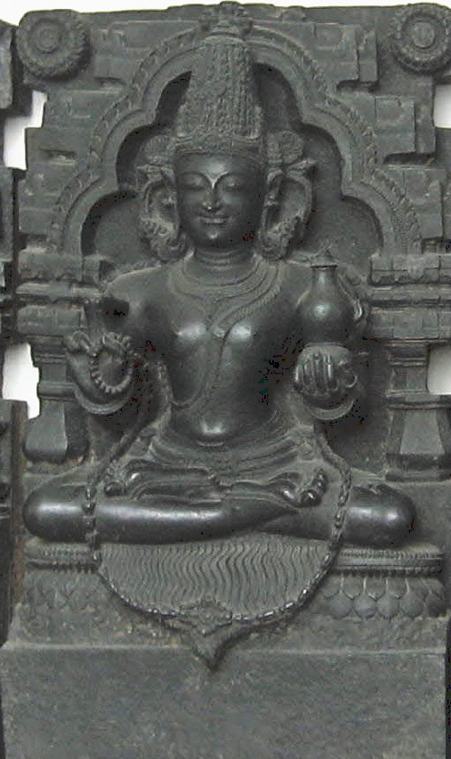 Mangala, Hindu god of Mars, British Museum